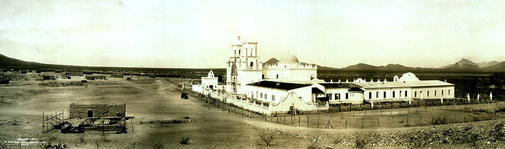 San Xavier Mission, Tucson, Arizona, c1913 PART OF: Panoramic photographs (Library of Congress) REPOSITORY: Library of Congress Prints and Photographs Division Washington, D.C. 20540 USA DIGITAL ID: (digital file from intermediary roll film copy) pan 6a00493 CARD #: pan1993000993/PP J180002 U.S. Copyright Office Copyright deposit; West Coast Art Co.; April 7, 1913. Stamped on verso: "West Coast Photo & Art Co., for permission to use address, 727 So. Main St., Los Angeles. Phone F-4116. Order by number. Mail orders receive prompt attention." No. 3078.